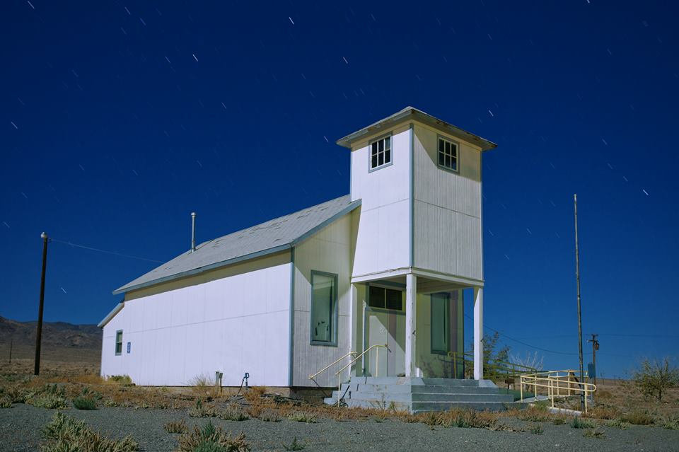 school in the ghosttown of Luning, Nevada